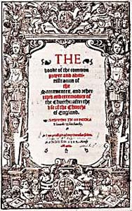 Title page published in 1549.